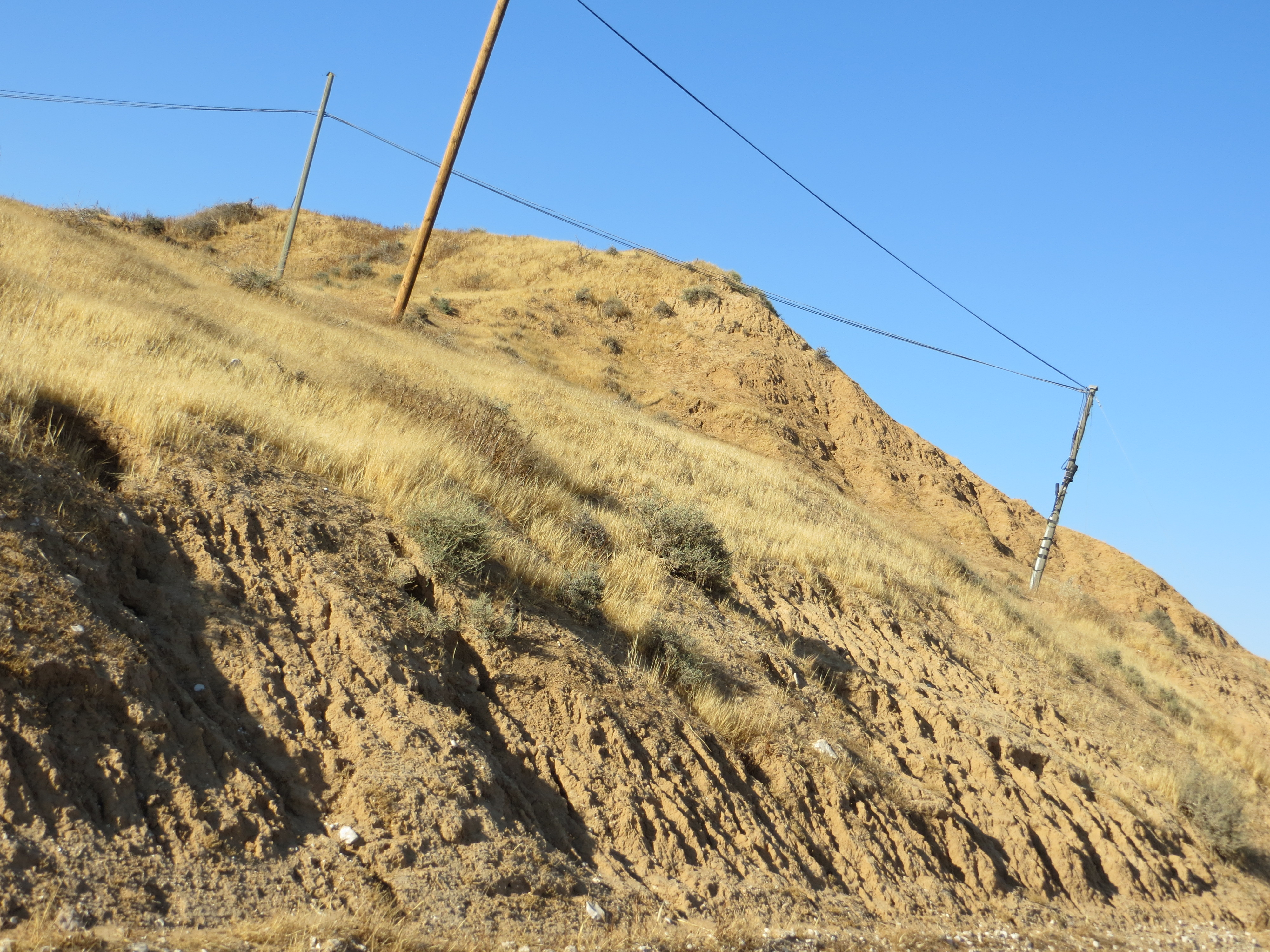 rill' northern Negev, Israel